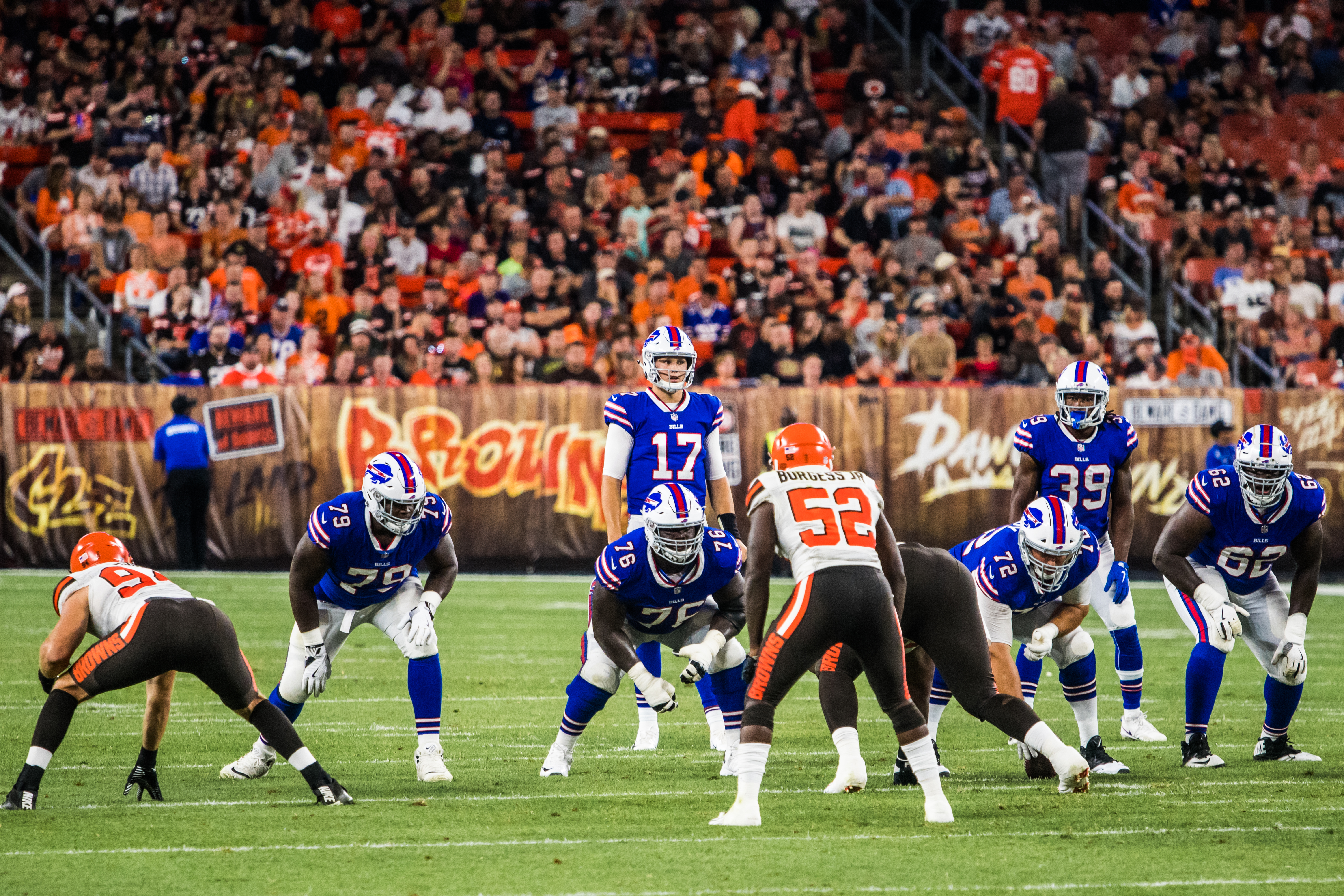 Josh Allen